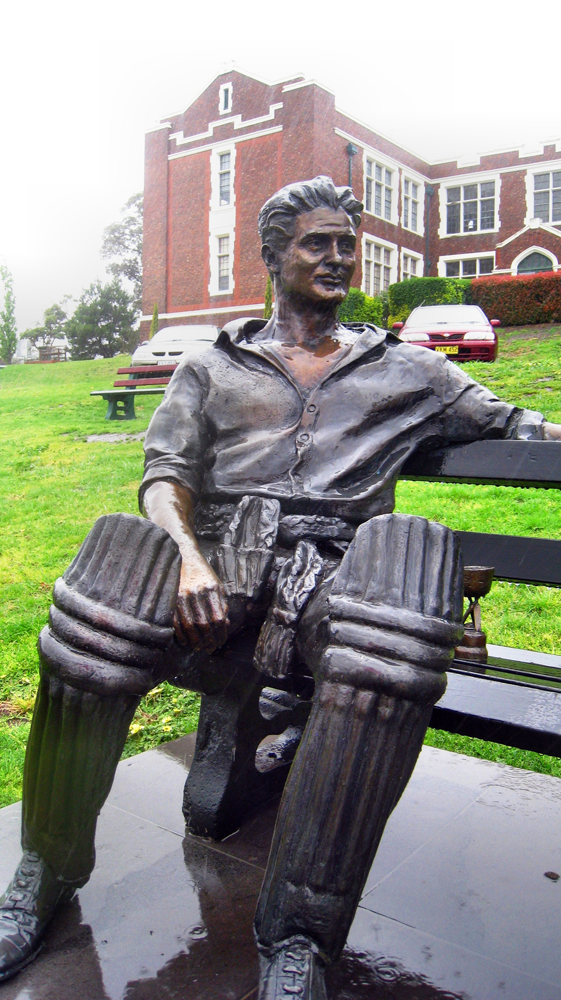 Keith Miller - Melbourne High School